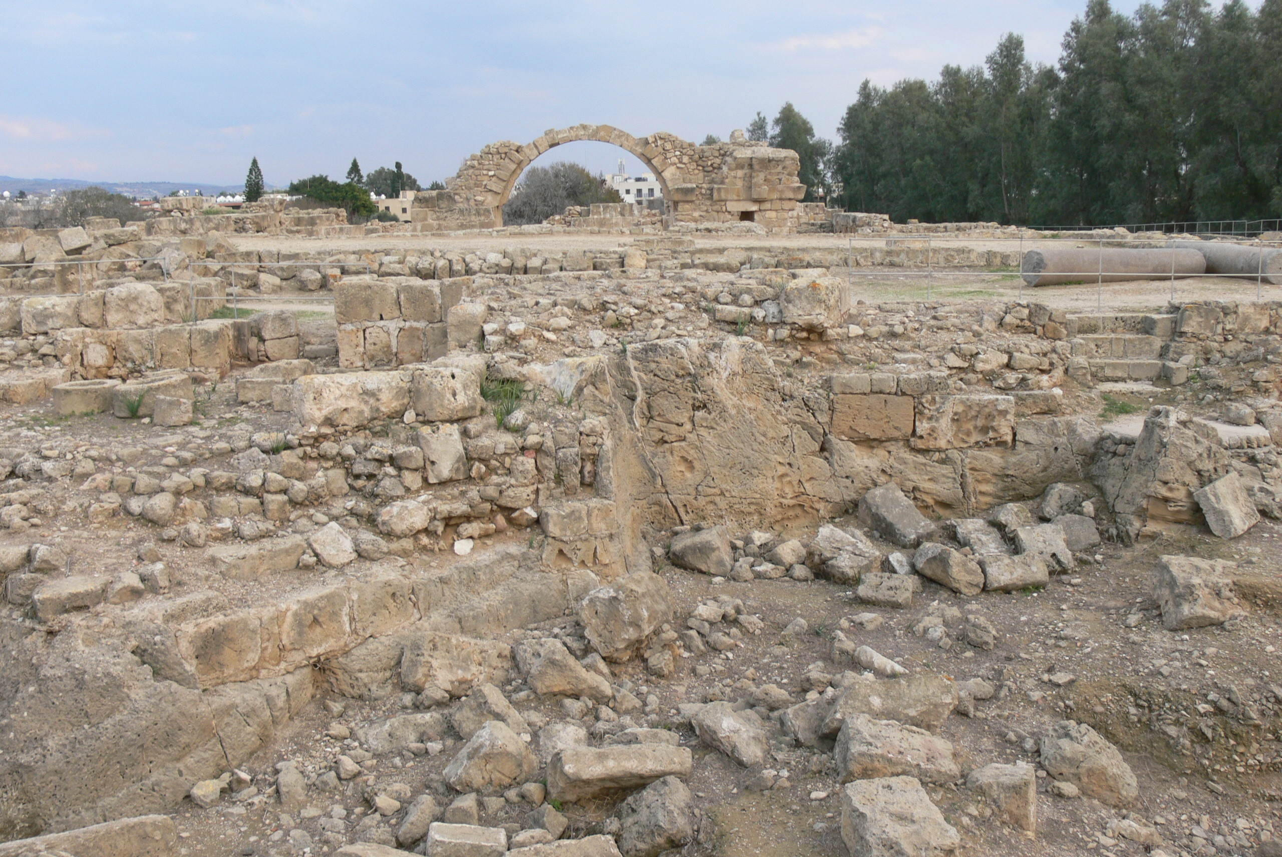 Paphos Archaeological Park. Saranda Kolonnes castle, seen from south.